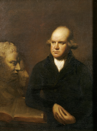 Sir Herbert Croft 5th bt by Lemuel Abbott (1760-1803) - youngest date would be 1803